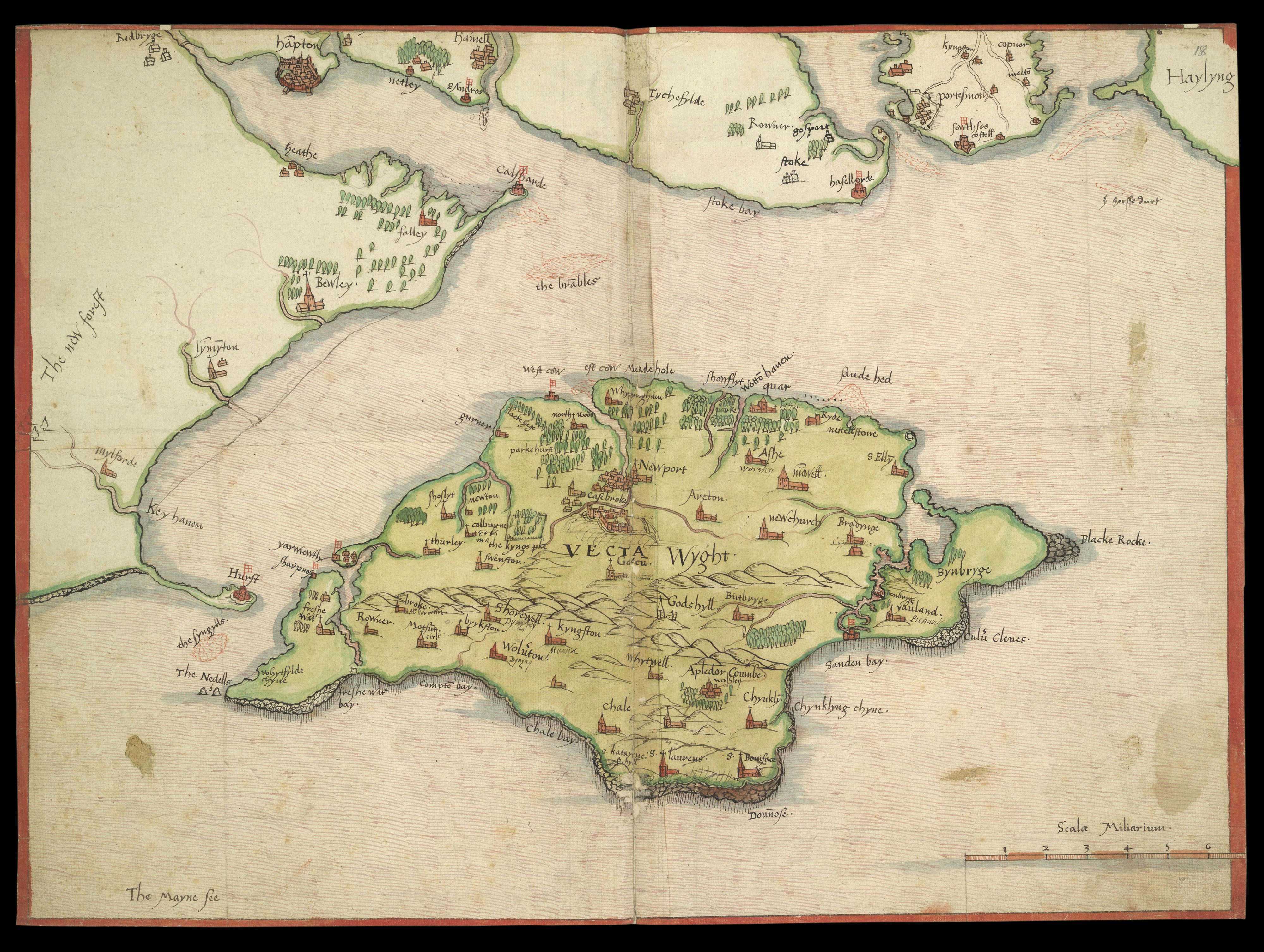 Map of the Isle of Wight by John Rudd, Ink and tempera on parchment, 1570